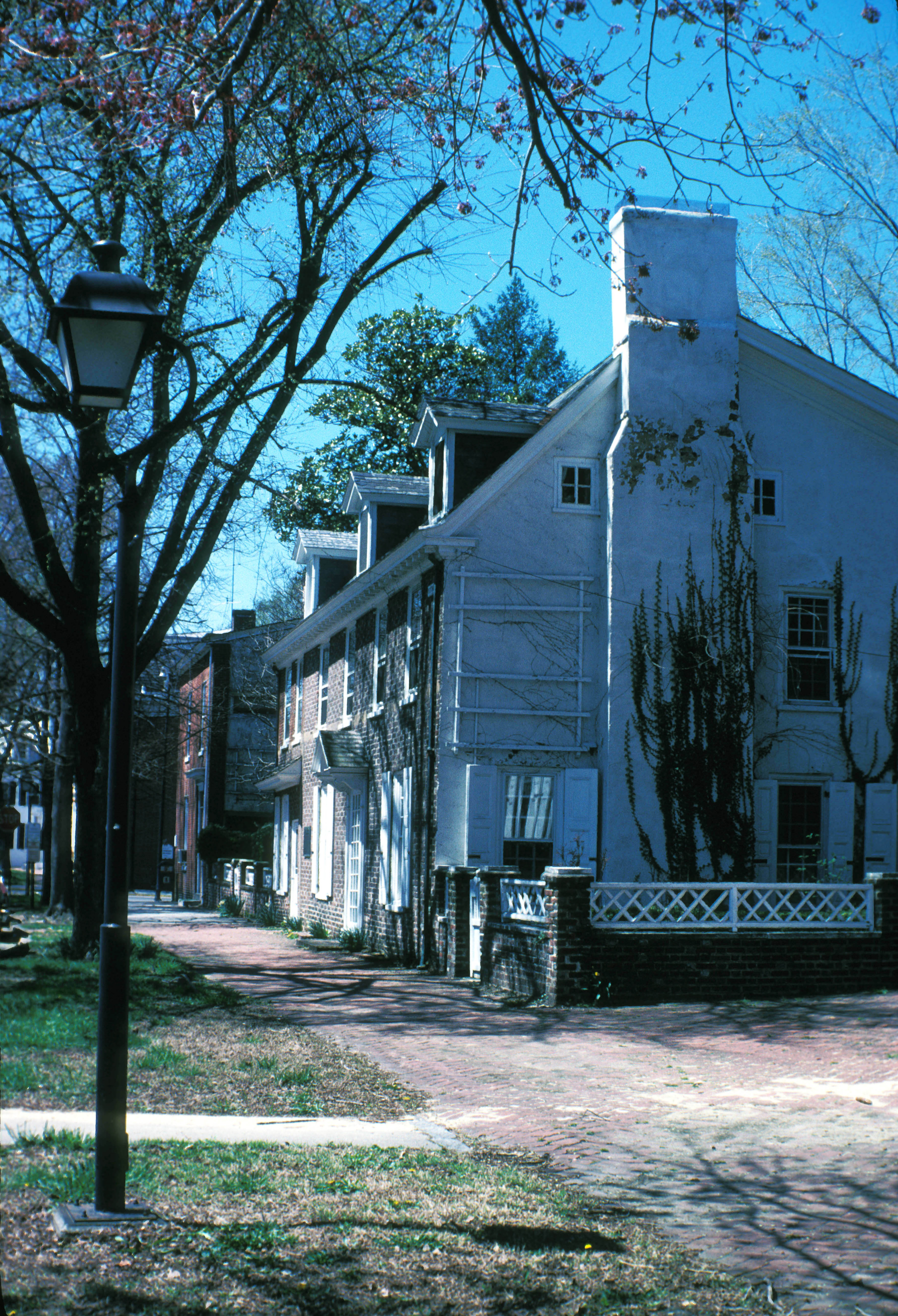 OLD HOUSE ON THE DOVER GREEN OF A PROMINENT DELAWARE FAMILY A MEMBER OF WHICH BECAME U.S.SENATOR